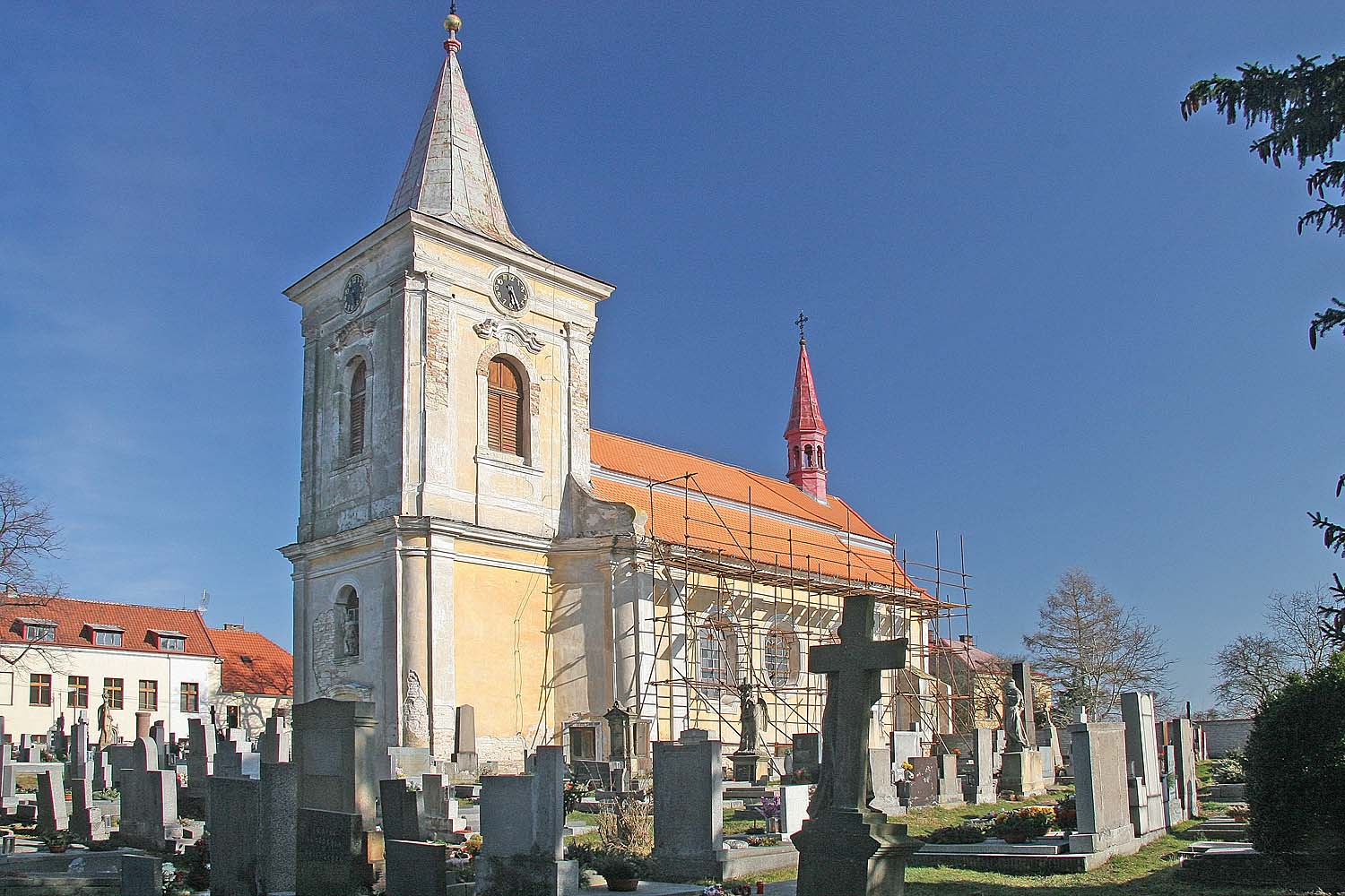 Baroque church of Saint Wenceslas in Hrubý Jeseník, Nymburk District, Czech Republic. autor:Prazak date:17. 2. 2007